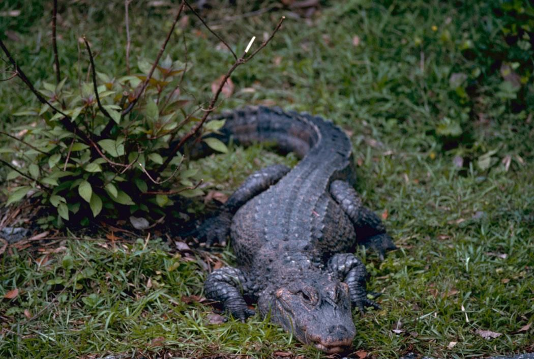 Image title: Chinese alligator Image from Public domain images website